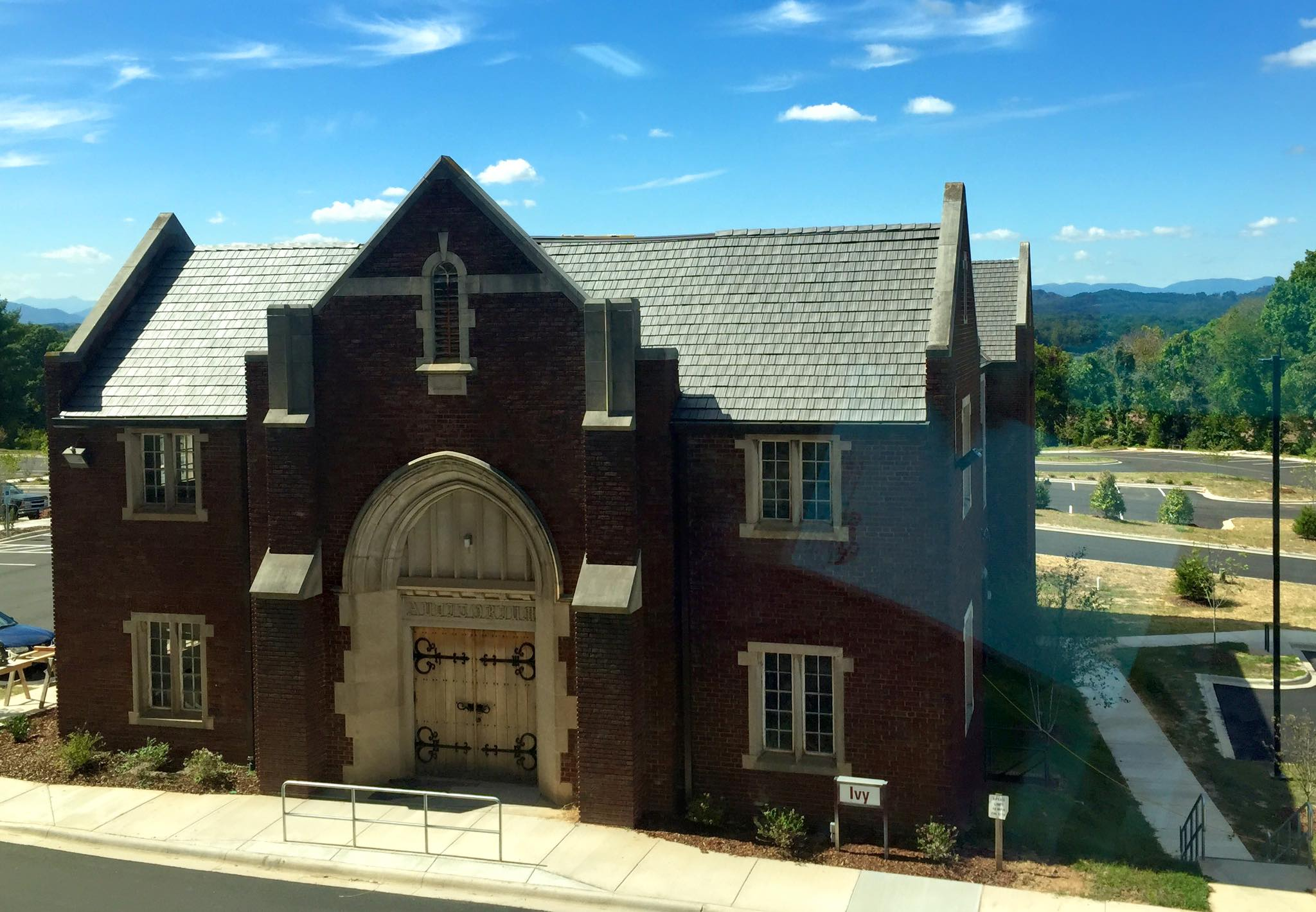 Former auditorium and gymnasium of St. Genevieve-of-the-Pines School, built in 1936 and now owned by A-B Tech